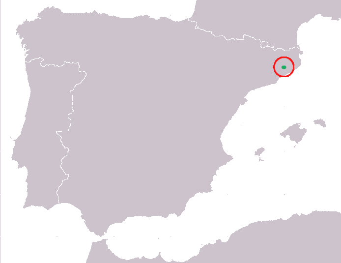 Range map of Calotriton arnoldi in Iberian Peninsule.